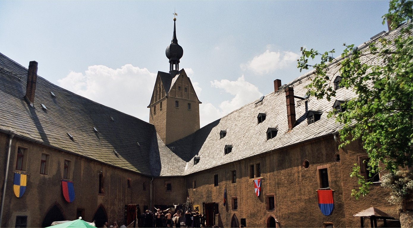 Rochsburg Castle - outbuildings